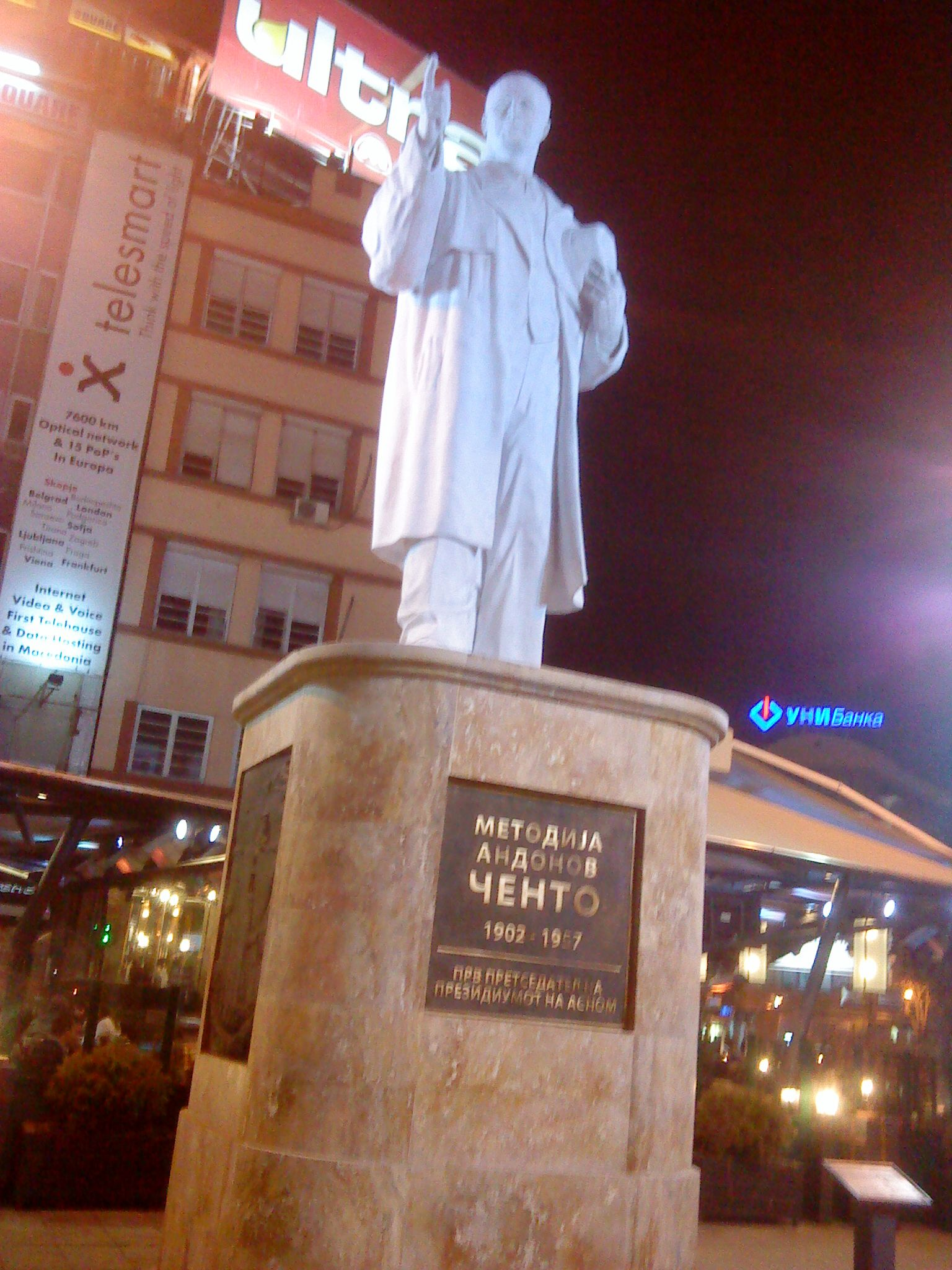 Monument in tribute of Metodij Andonov Čento in Skopje